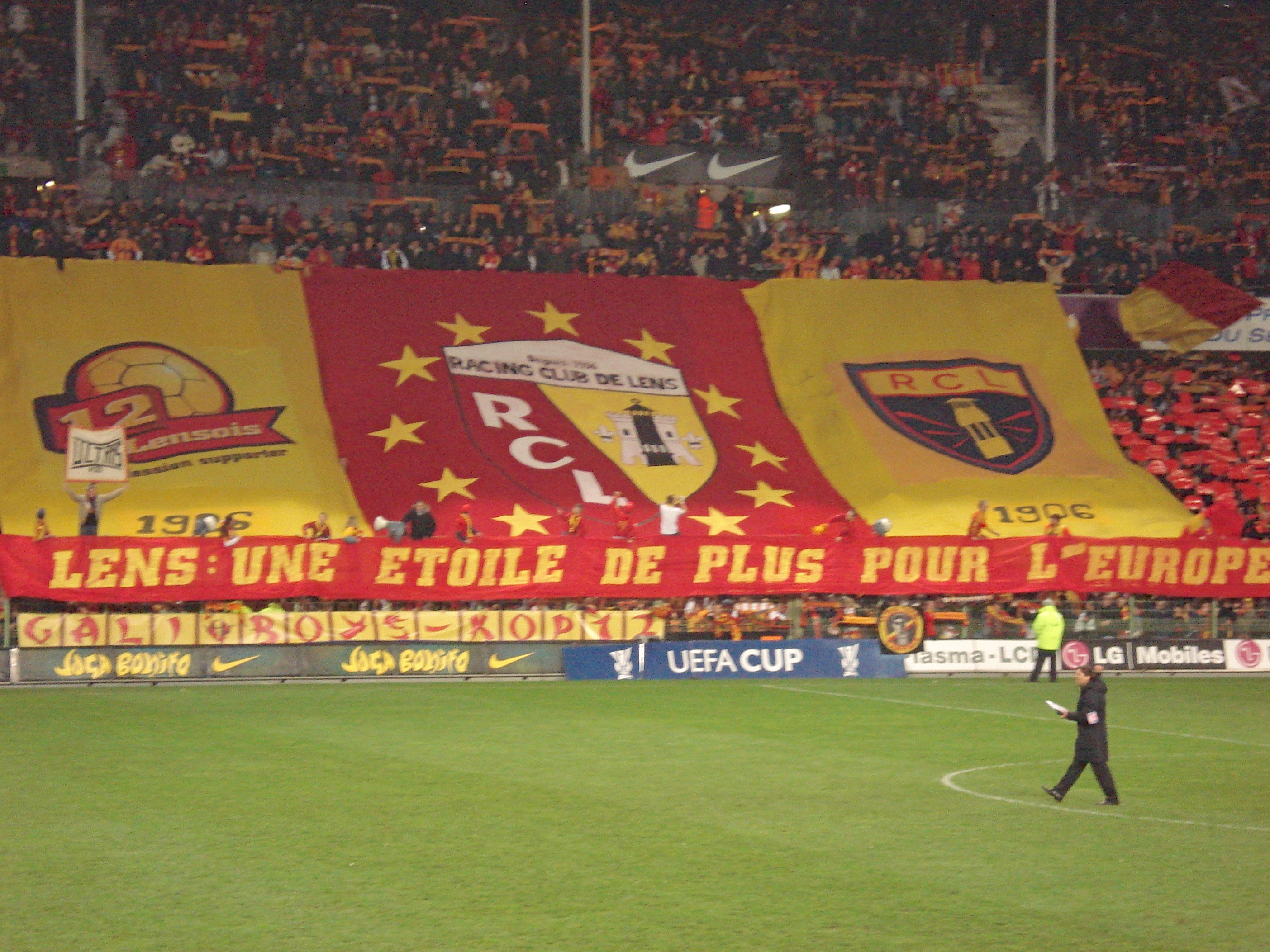 Banderole Lens - Parme 2006